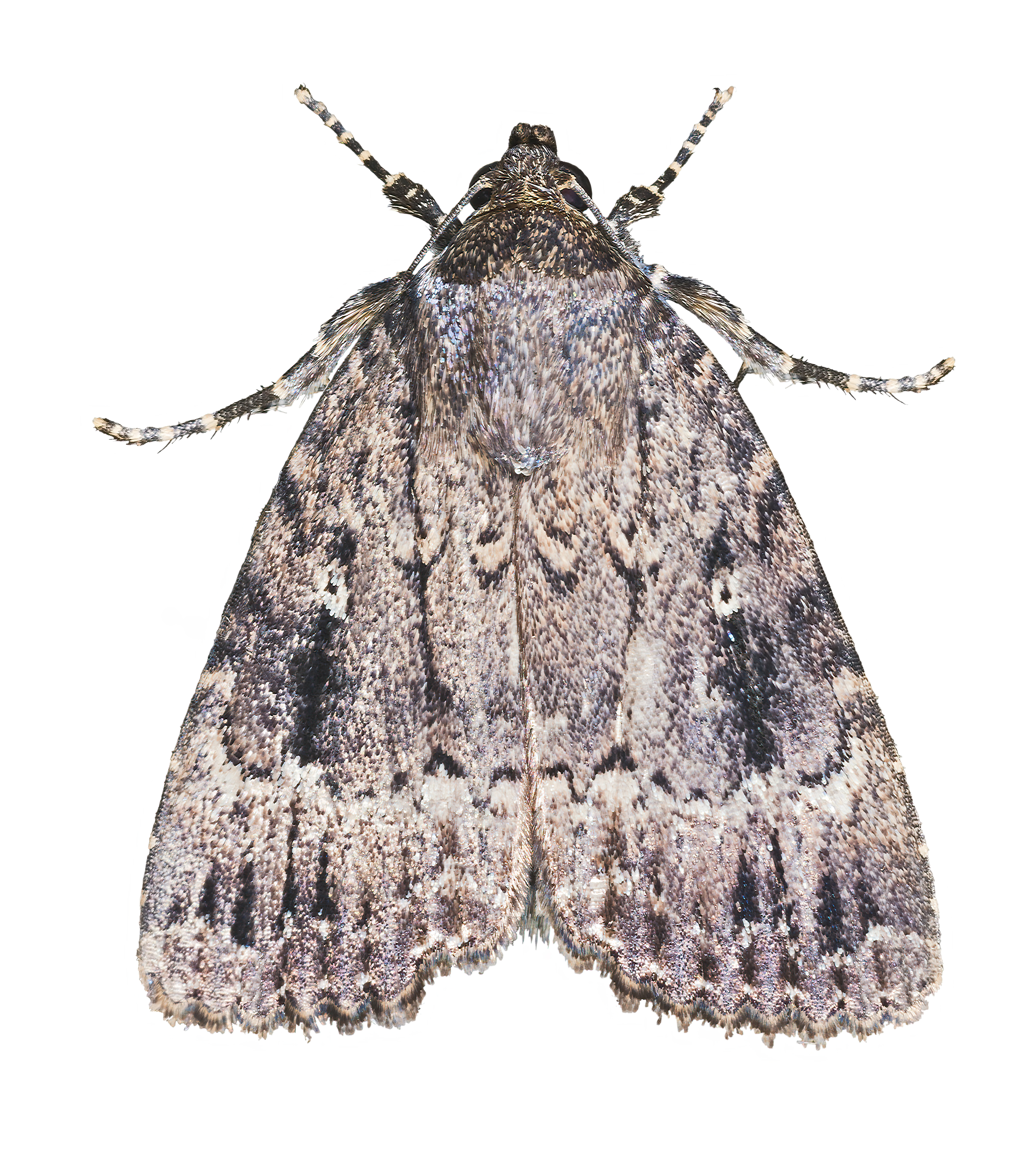 Copper Underwing. Dorsal side.